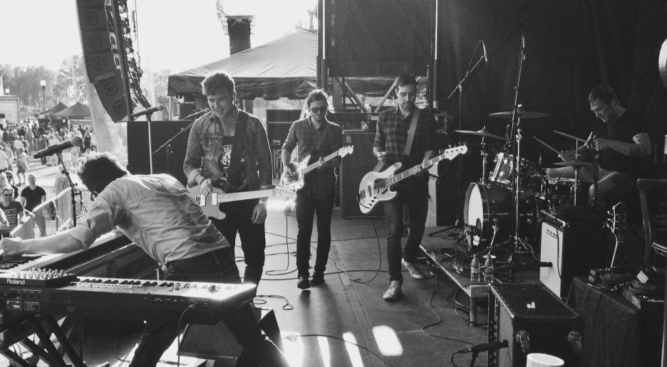 Arkells performing live in Buffalo, New York, during the summer of 2013